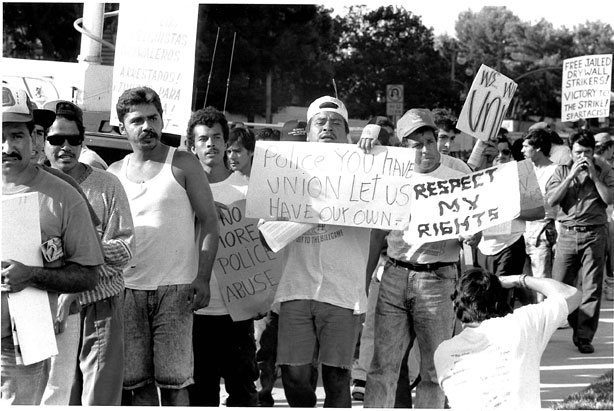 On June 1, 1992, hundreds of drywall workers walked off construction sites, demanding a union and higher wages. Five weeks into the walkout, 149 of them were arrested after sheriff's deputies said the men stormed a construction site in Mission Viejo, one of the largest mass arrests in Orange County. Nearly 90 of those arrested were in danger of being deported as undocumented immigrants. Acting in solidarity, the men refused a plea bargain and asked for trials. Read an L.A. Times article on the strike "Drywall Strike Centers on Issue of Equitable Pay."